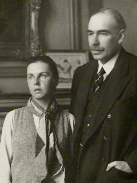 John Maynard Keynes, 1st Baron Keynes of Tilton; Lydia Lopokova